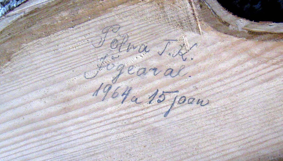 Maker's sign inside a double bass top